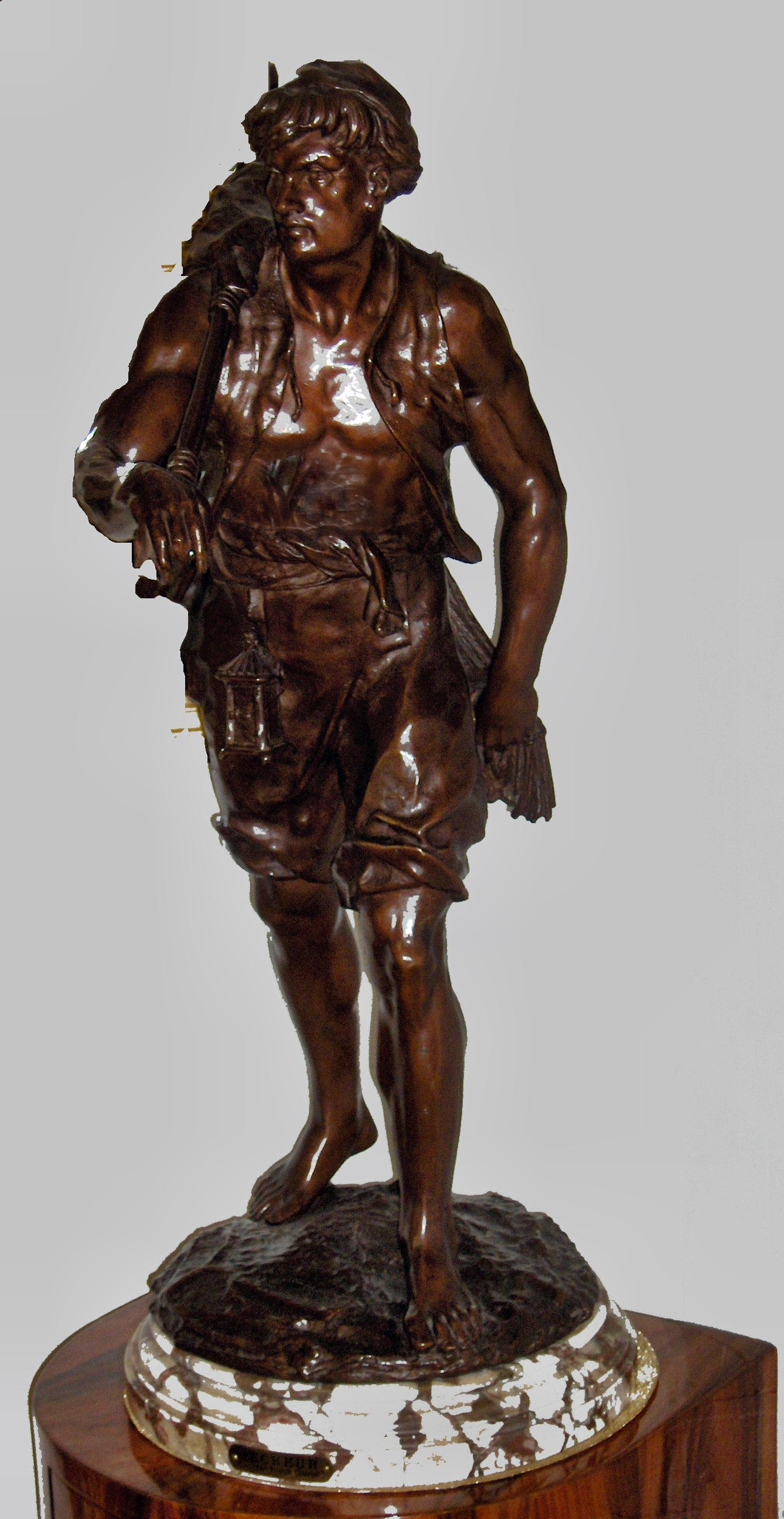 Attributed to Émile Picault (1833-1915), Le Pêcheur (Fisherman), bronze, unsourced private collection.